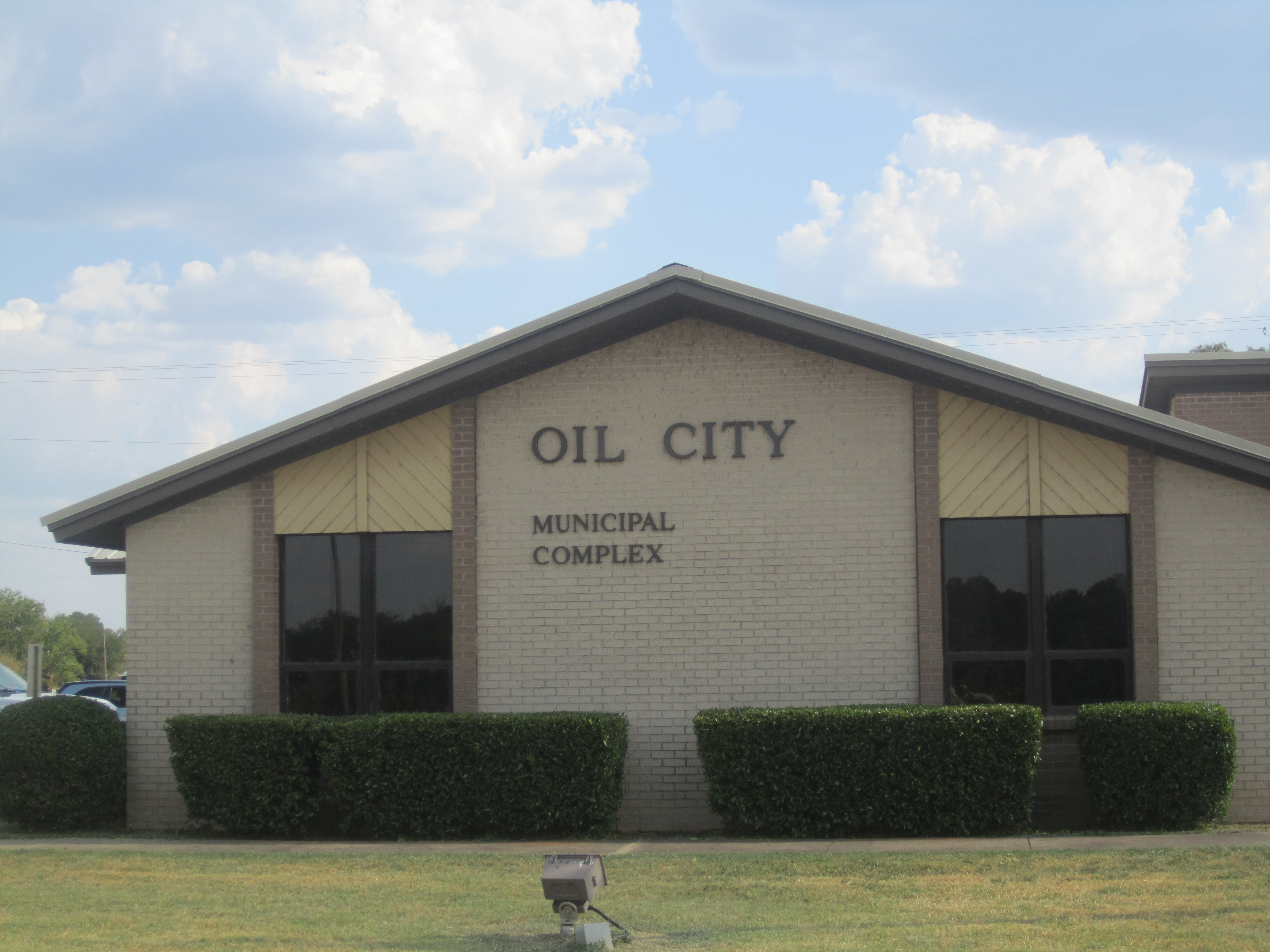 I took photo of Municipal Complex in Oil City, LA, with Canon camera.